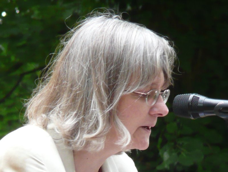 german writer Sabine Peters, reading from her works at the Erlanger Poetenfest 2010